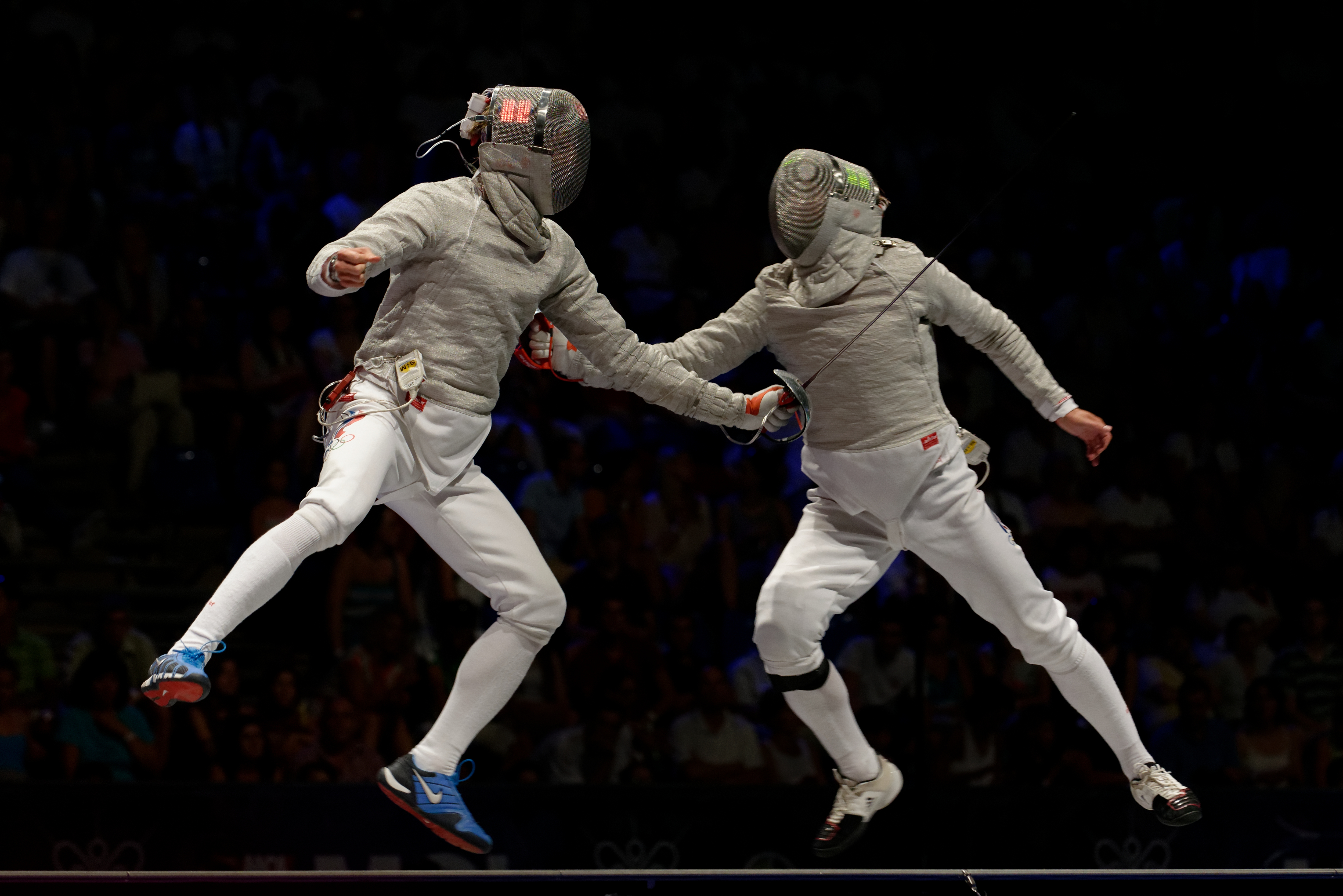 Russia's Veniamin Reshetnikov (L) competes against his fellow countryman Nikolay Kovalev (R) in the final of the men's sabre event in the 2013 World Fencing Championships 2013 at Syma Hall in Budapest, 10 August 2013.